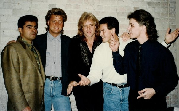 L to R: Dave Rajput with Shadoe Stevens, singer Eddie Money, Andrew Starr, and Markus Schulz in 1990.